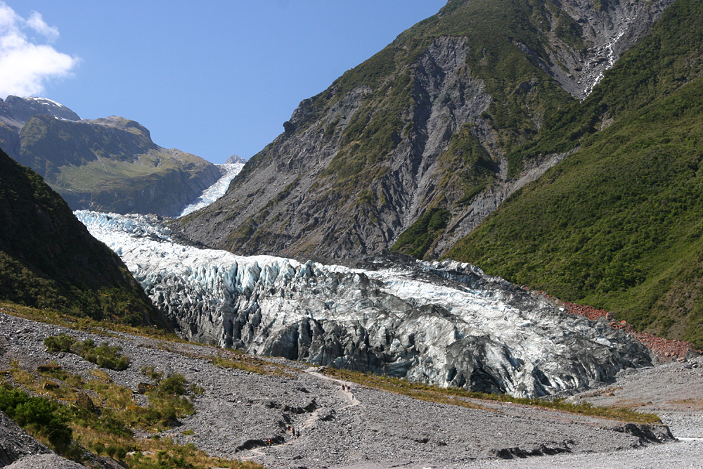 The Fox glacier in New Zealand.